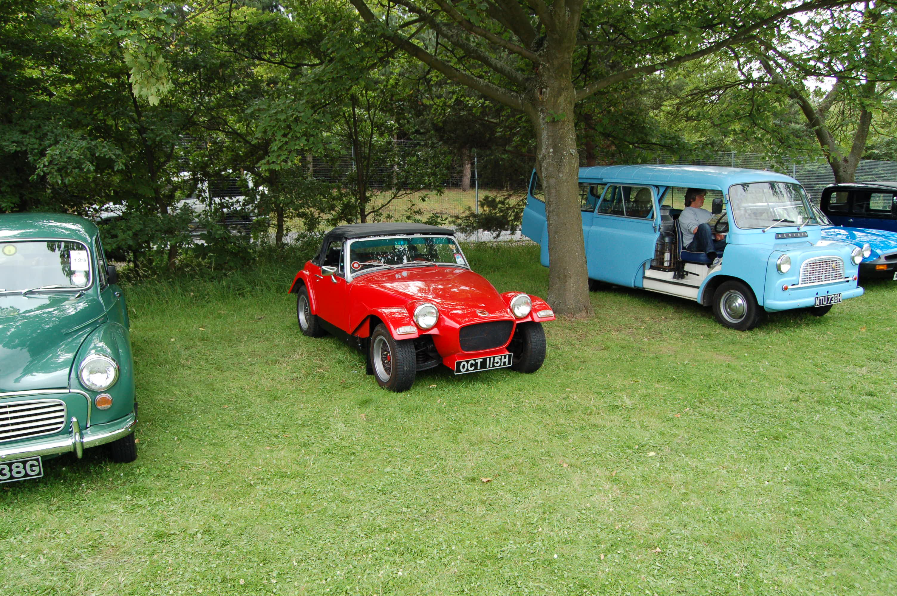 Woodhorn Classic Car Show 2011